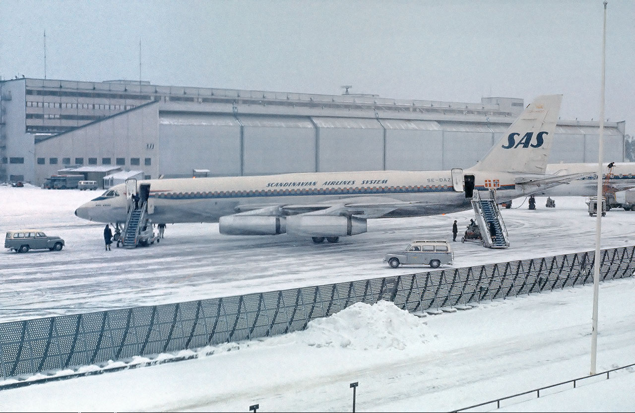 Scandinavian Airlines System (SAS) Convair 990A (30A-6) SE-DAZ Ring Viking at Stockholm-Arlanda Airport